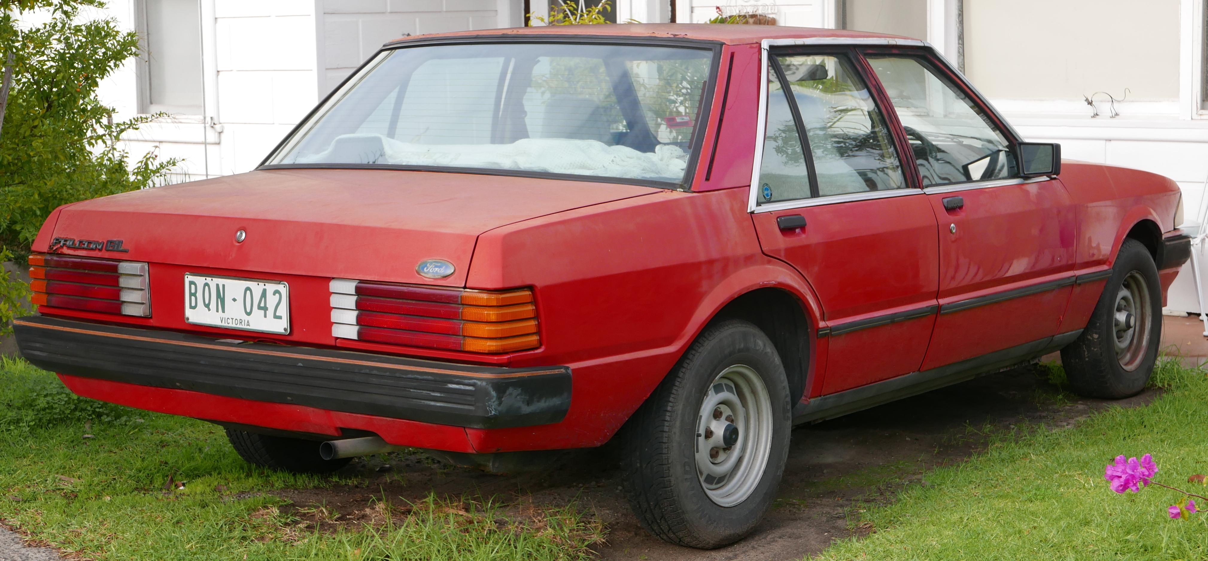 1983 Ford Falcon (XE) GL sedan. Photographed in Northcote, Victoria, Australia. Vehicle registration enquiry results Jurisdiction Victoria Registration BQN042 Chassis code Not available Engine code JG23AR40520C Compliance date Not available Year of manufacture 1983